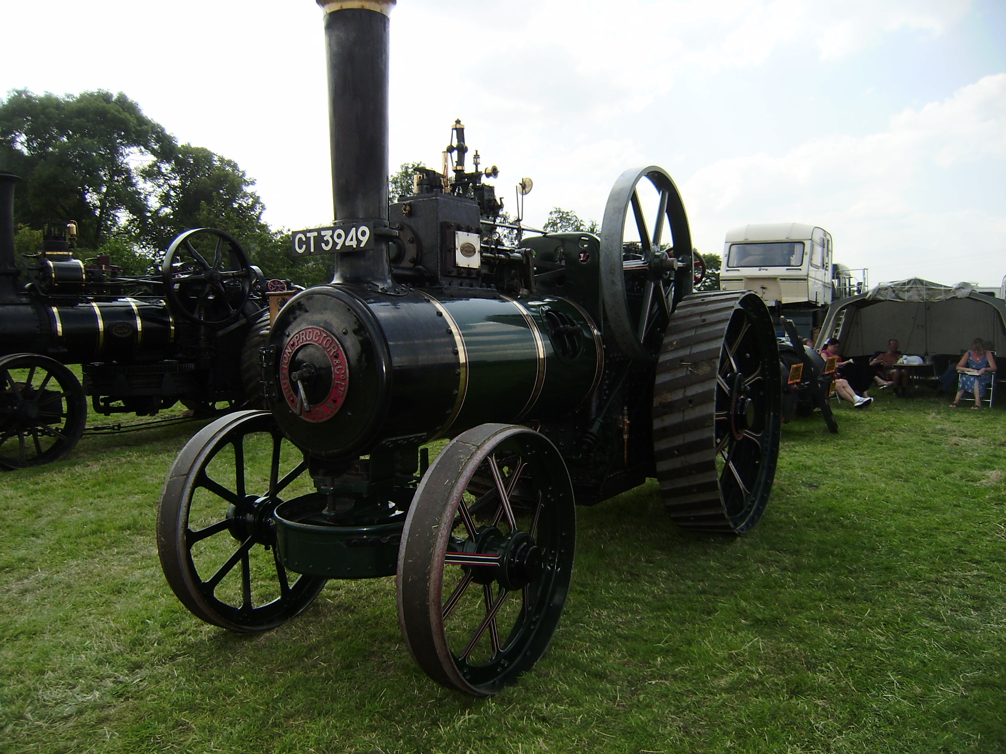 Ruston, Proctor & co traction engine CT 3949 at Cromford steam fair 2008